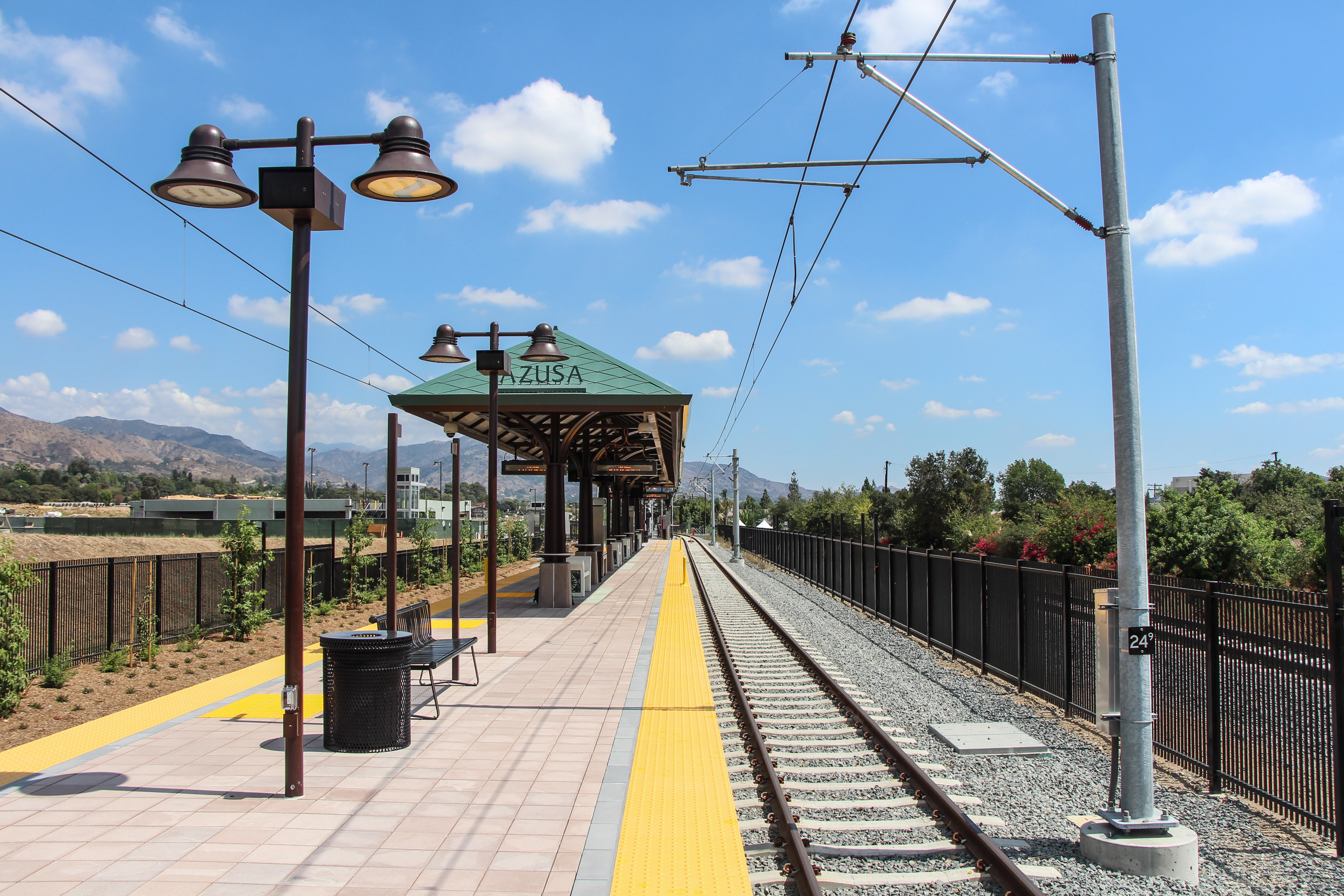 This is a photo of APU/Citrus College station (located in Azusa) on the LACMTA Gold Line.